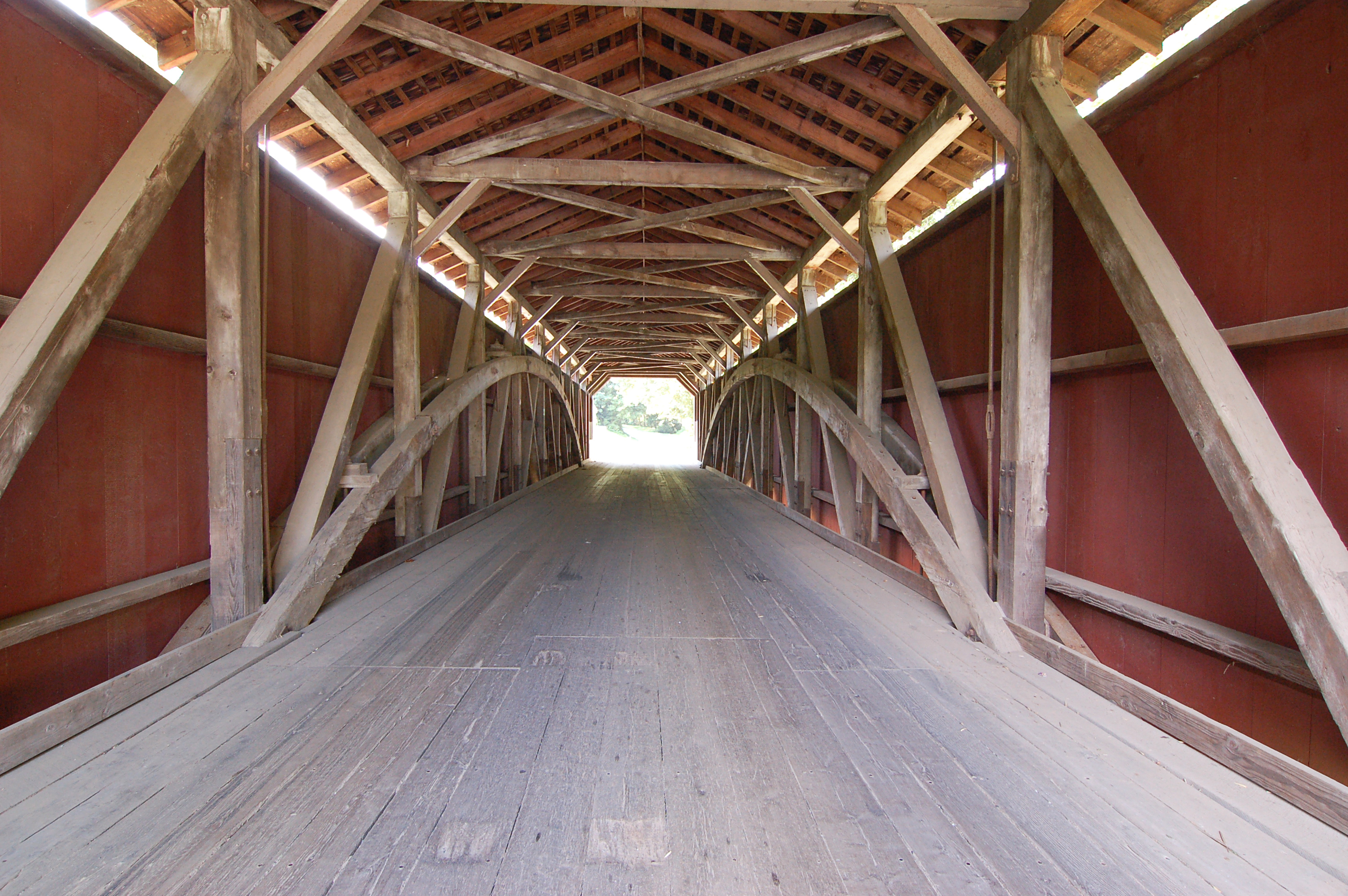 A photograph of the Baumgardener's Covered Bridge from inside the bridge. The bridge is located in Lancaster County, Pennsylvania. This photo shows the double Burr Arch Trusses and steel hanger rods.